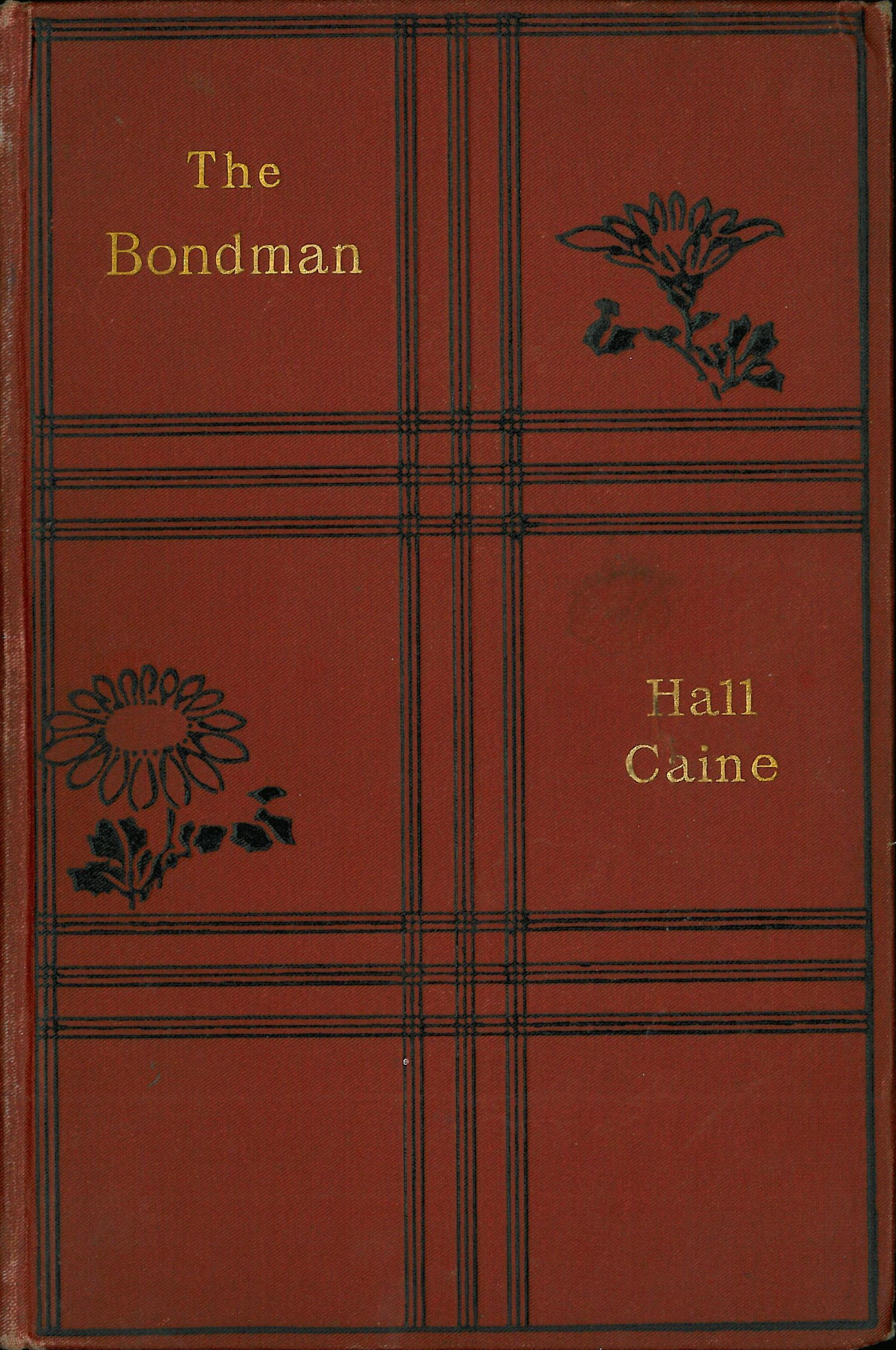 'The Bondman' by Hall Caine - the front cover of the 1910 edition, published by Heinemann.